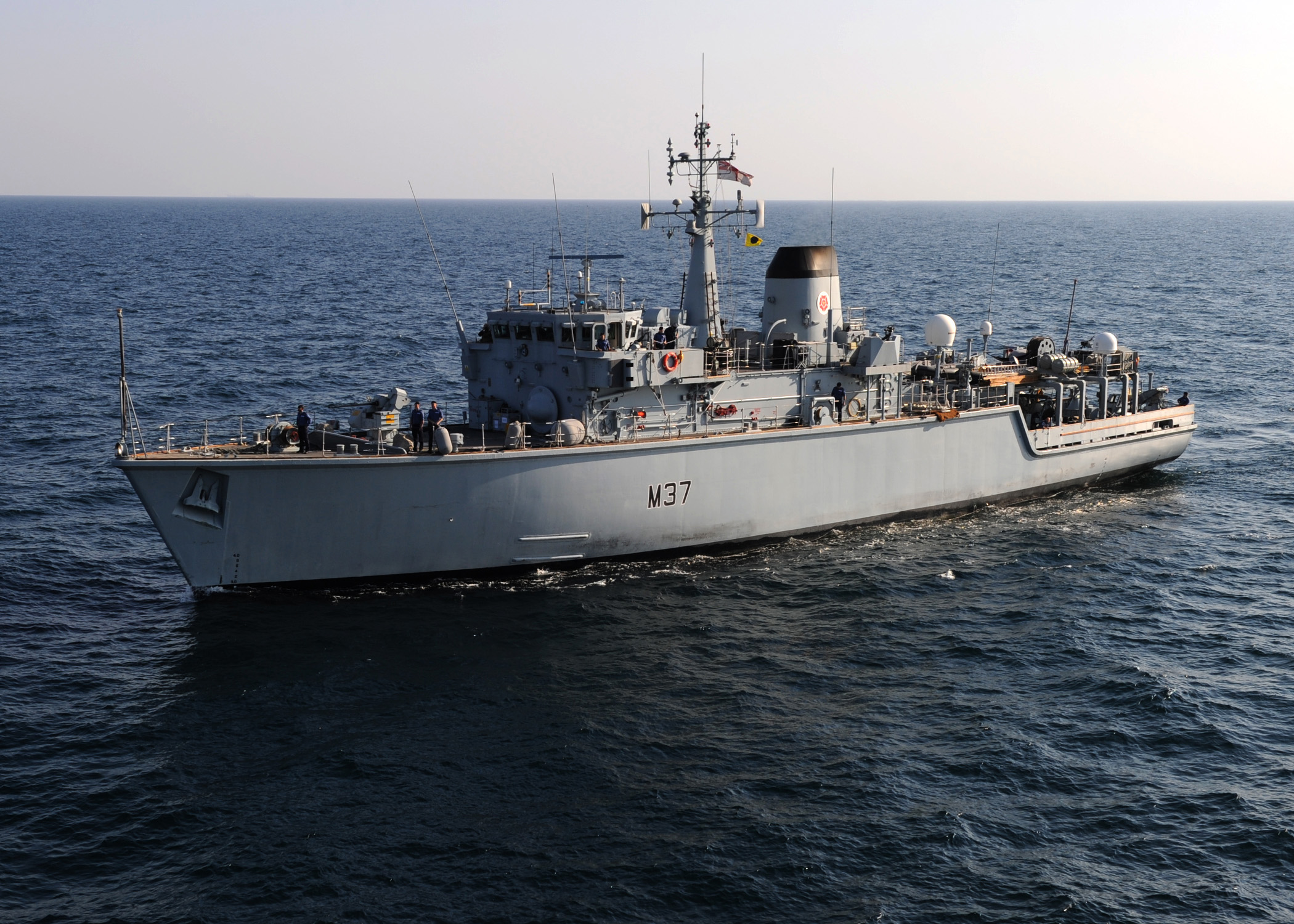 STRAITS OF HORMUZ (Nov. 13, 2010) The British Royal Navy mine countermeasure ship HMS Chiddenfold (M 37) prepares to pull alongside the Royal Fleet Auxiliary landing ship Lyme Bay (L3007) before rafting during a joint exercise. Chiddenfold is part of Combined Task Force (CTF) 151 deployed in support of maritime security operations in the U.S. 5th Fleet area of responsibility. (U.S. Navy photo by Mass Communication Specialist 1st Class Joshua Lee Kelsey/Released)